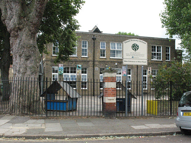 Darrell Primary School, North Sheen, Richmond